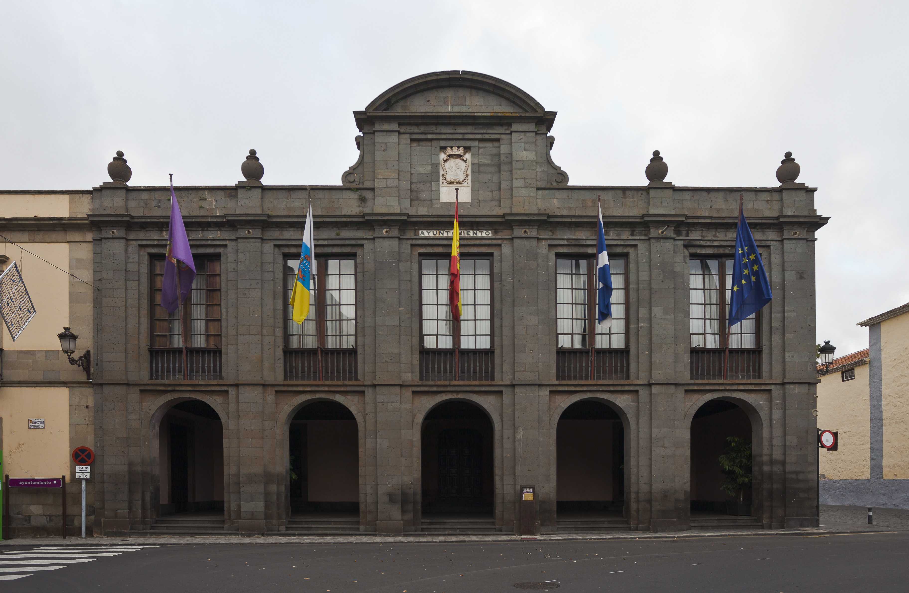 Town Hall, San Cristóbal de La Laguna, Tenerife, Spain